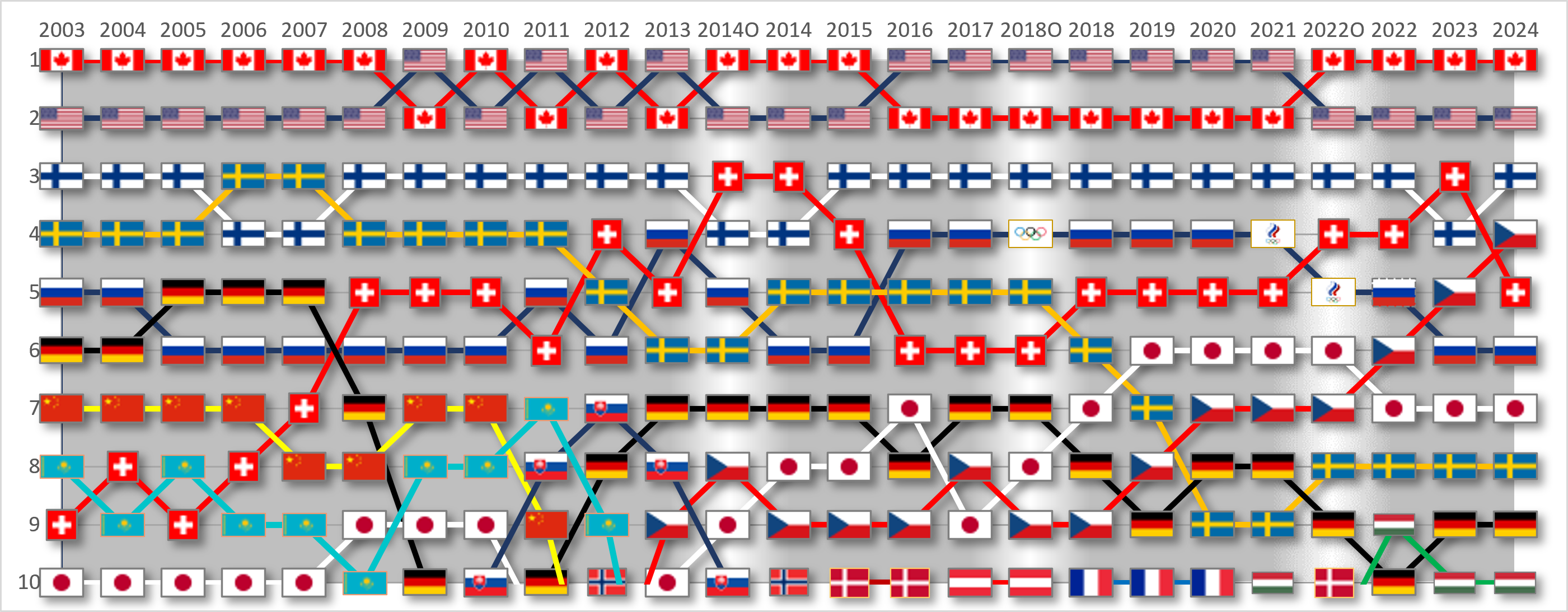 Graph of the evolution of the top ten women's nations between 2003 and 2015